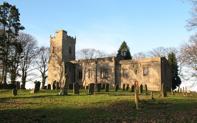 St Mary's South Cowton, near to North Cowton, North Yorkshire, Great Britain. A redundant church in fields and well away from the nearest road. Did this medieval church once act as the parish church for the three Cowton villages, as it stands in none of them? The church is closest to South Cowton, a deserted medieval village site.